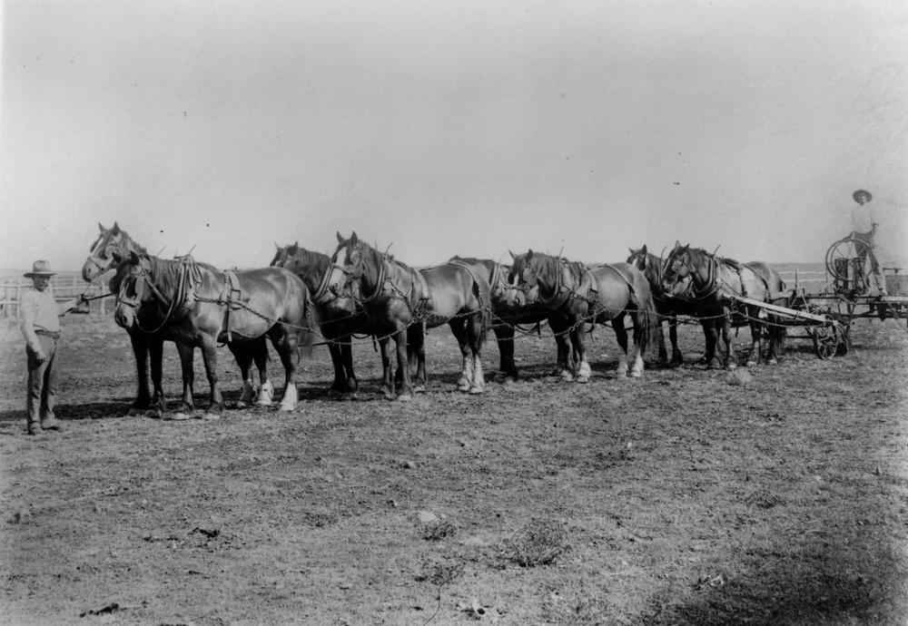 Station team on Elderslie Station Elderslie Homestead is about 60 kms west of Winton.